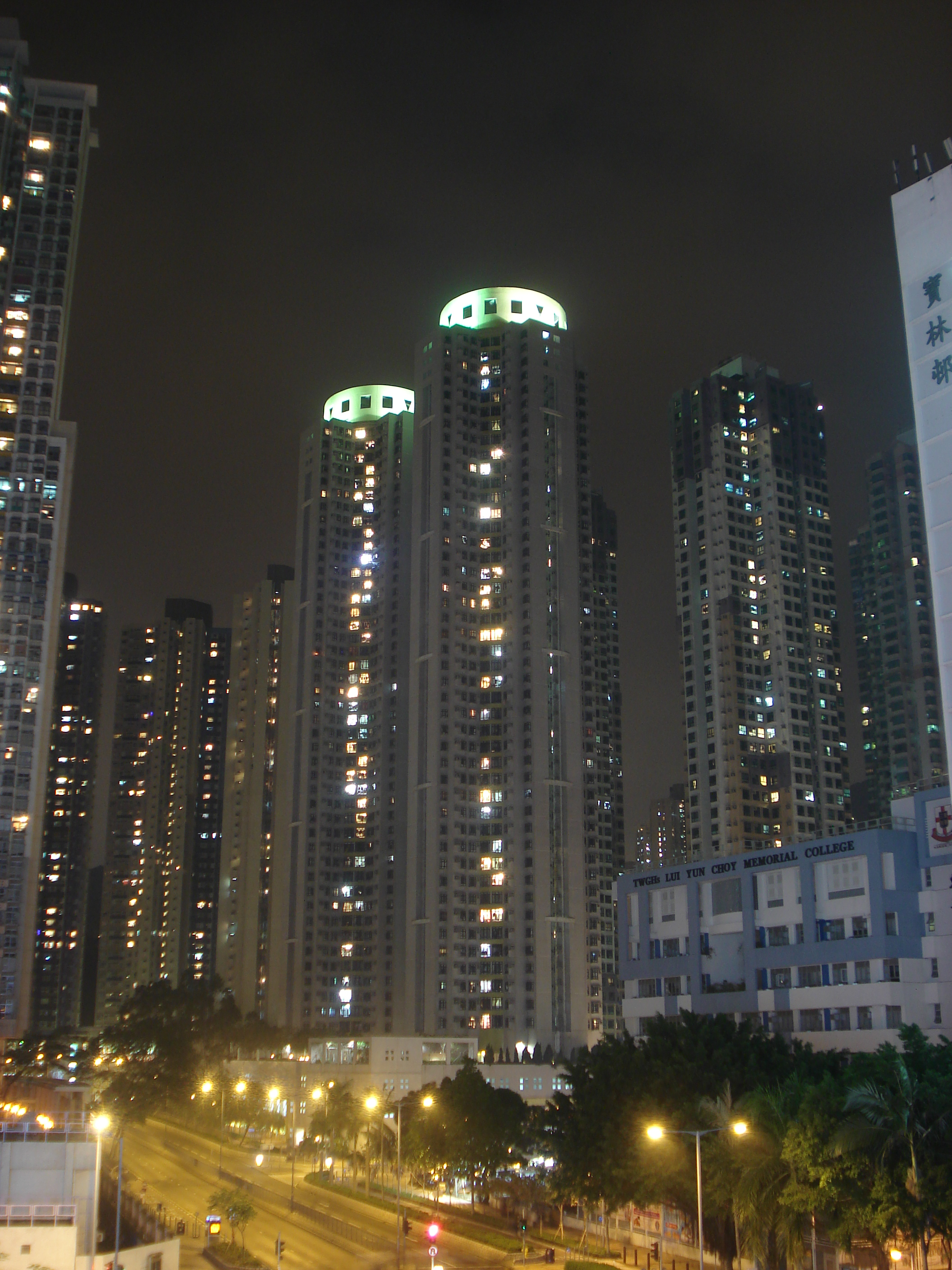 Radiant Towers